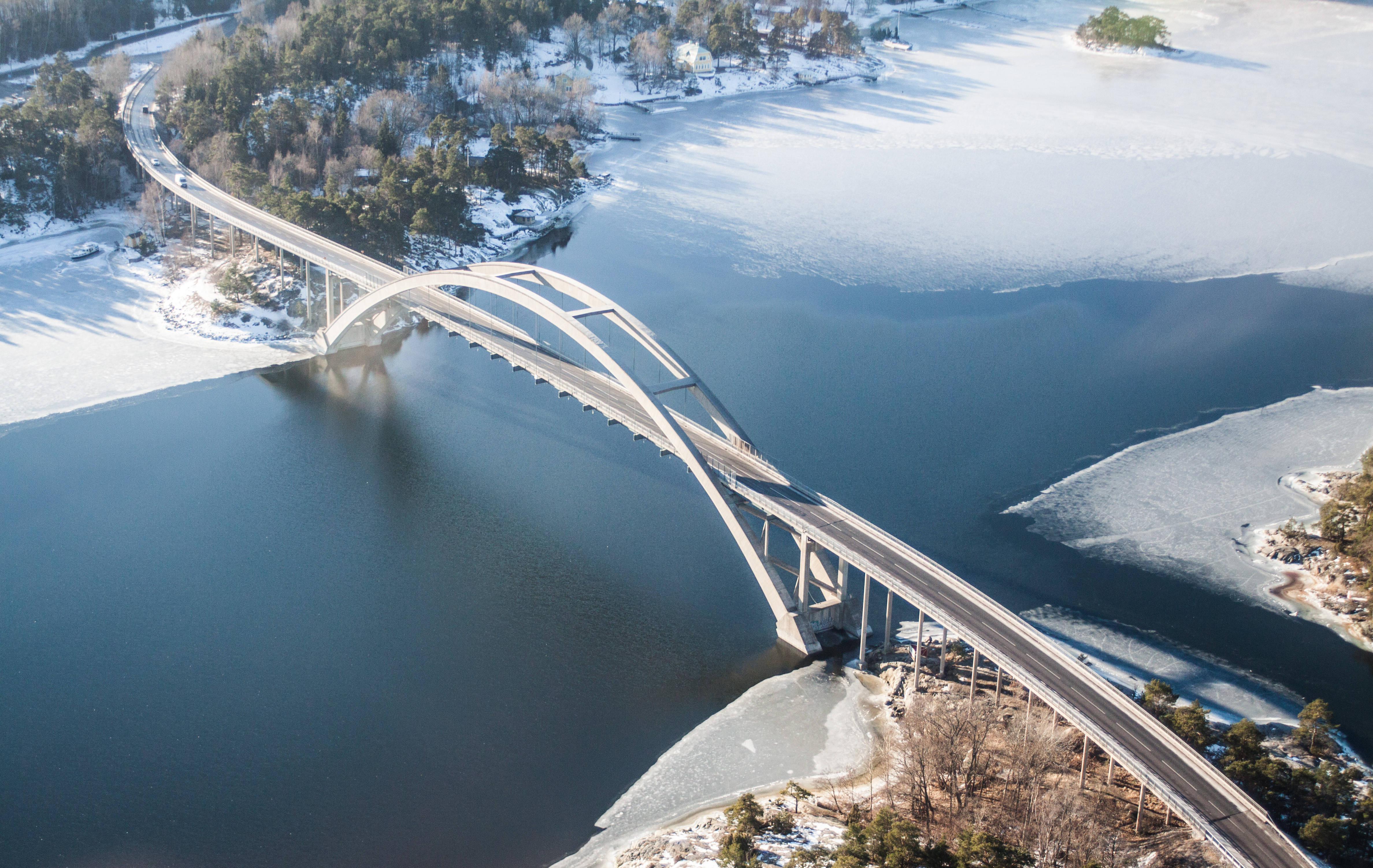 Aerial photo of Djuröbron in Värmdö municipality, Sweden